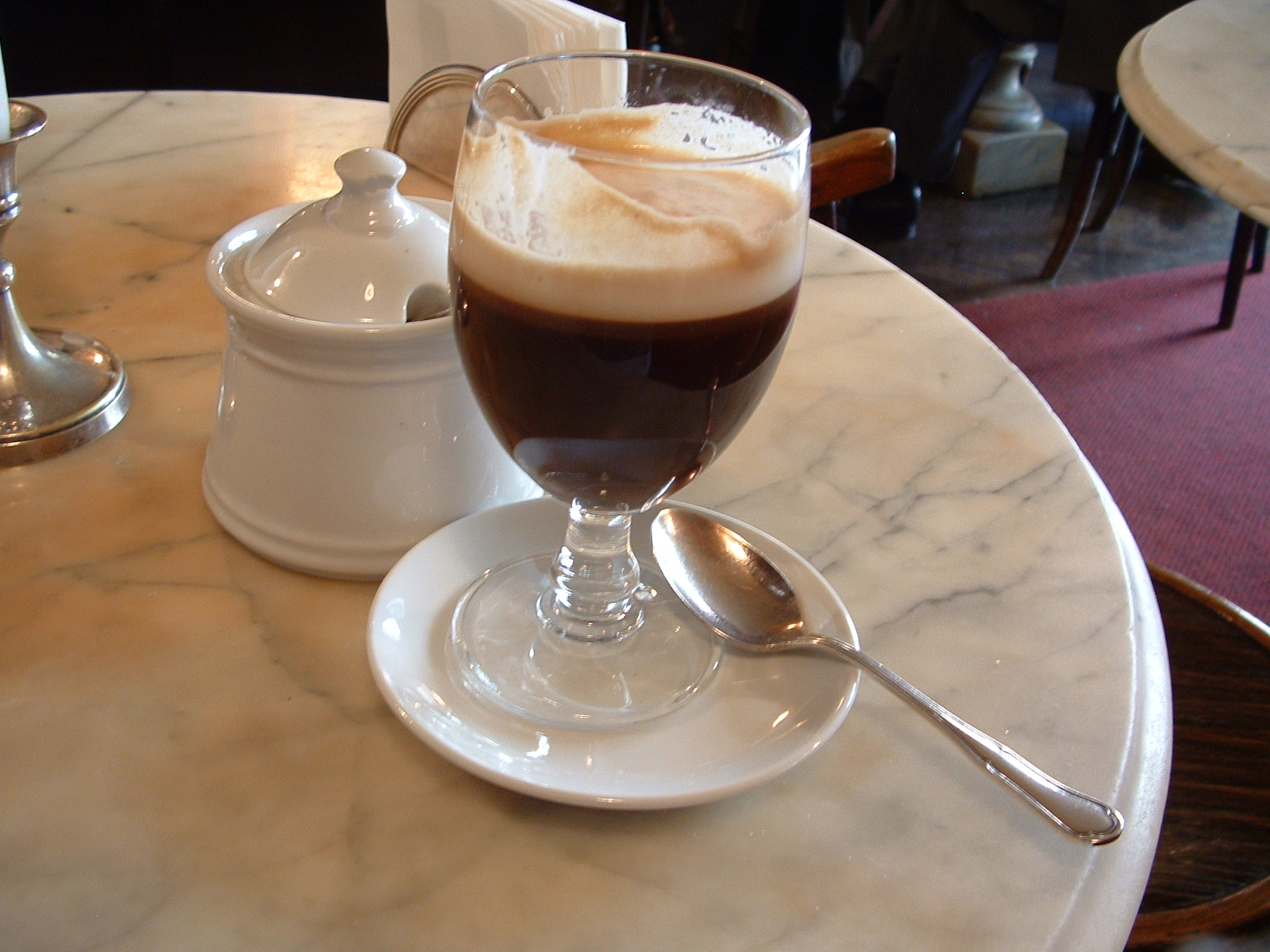 espresso, then chocolate, then heavy frothed cream...